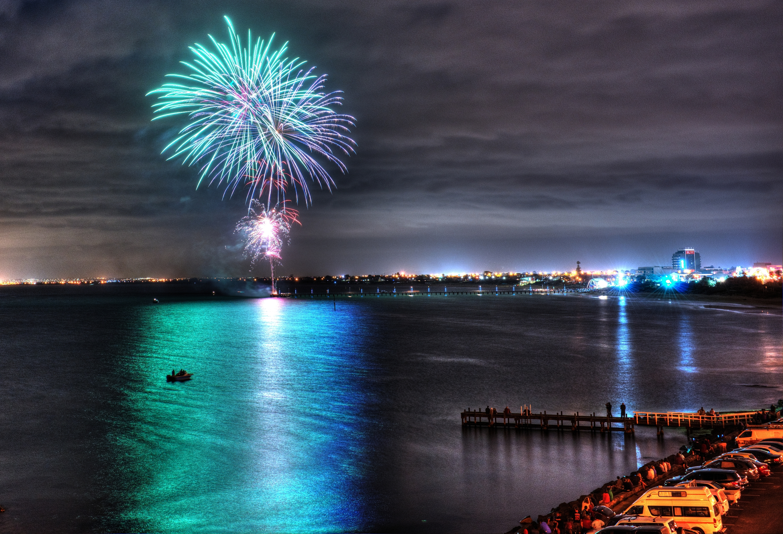 Frankston Waterfront Festival 2014